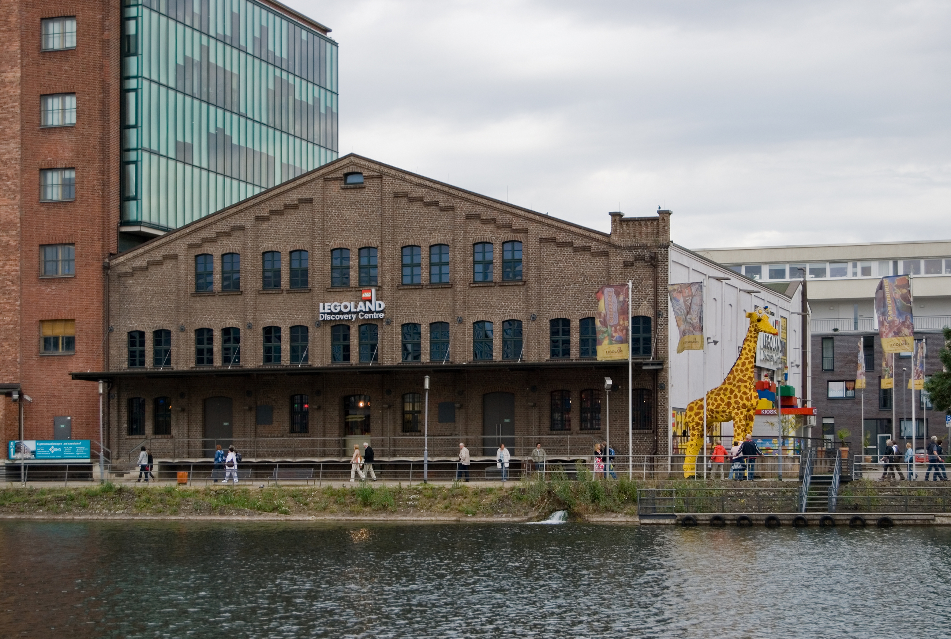 Duisburg (North Rhine-Westphalia, Germany) – Inner Harbour – Legoland Discovery Centre This image shows a heritage building in Germany, located in the North Rhine-Westphalian city Duisburg (no. 488). This photograph was taken with a Nikon D3000